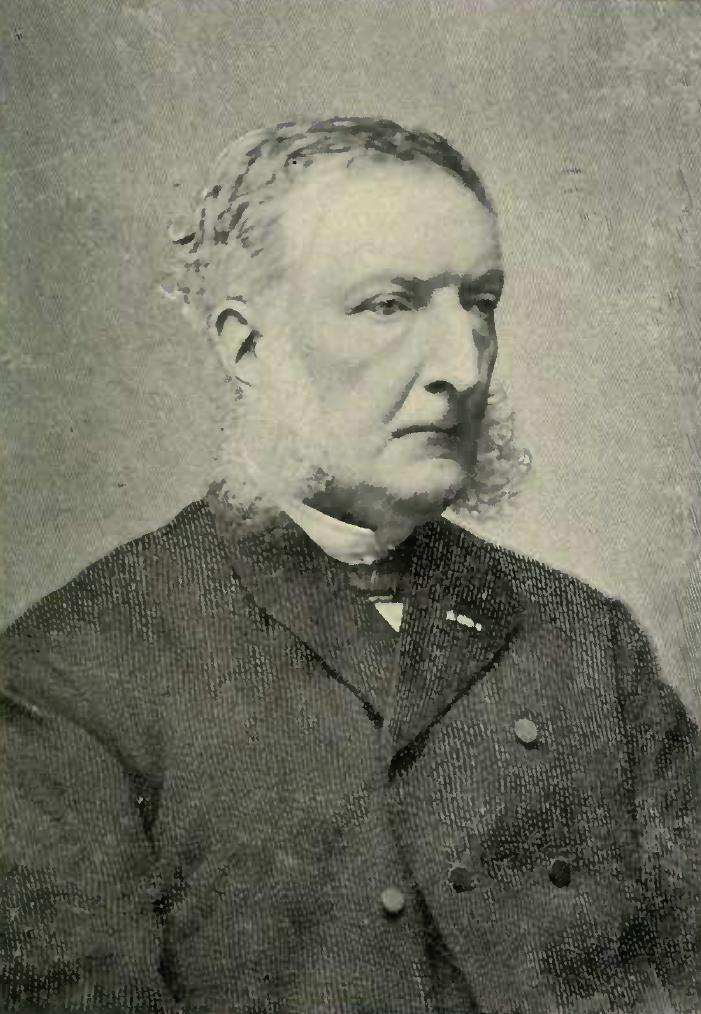 Portrait of Abraham Kuenen